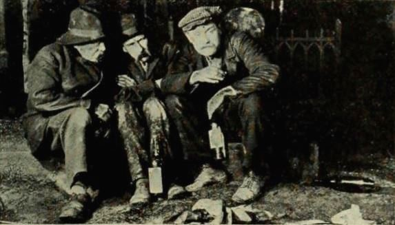 Still from the Swedish film Körkarlen (1921), from page 63 of the August 1922 Photoplay. The film was released in the United States under the title The Stroke of Midnight. On the right : Victor Sjöström, as David Holm, during the scene where this character is with two other drunkards (actors Nils Effors and Simon Lindstrand).